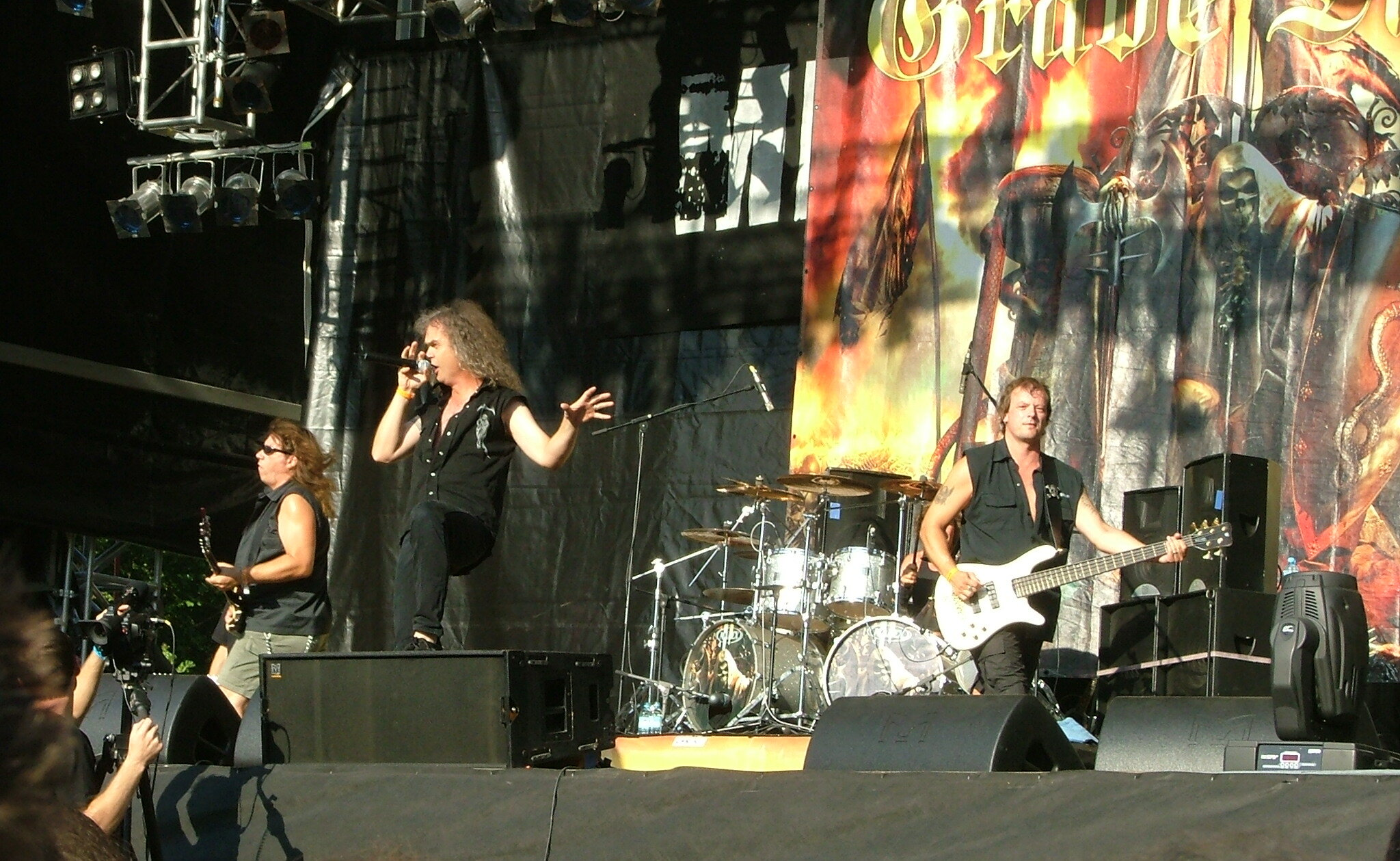 German true metal band Grave Digger at the Metalcamp in Tolmin